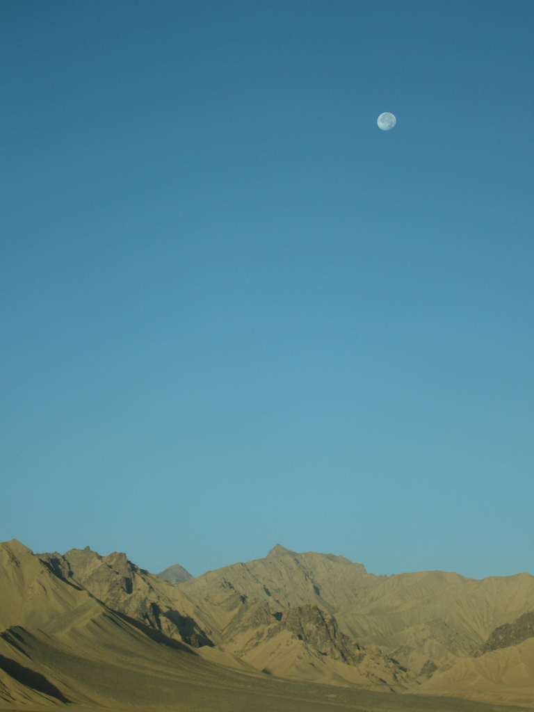 Southwest of Haixi Mongol and Tibetan Autonomous Prefecture, China